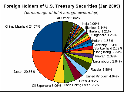 The percentage share of the foreign holders of United States Treasury Securities as of January 2009. Created with Calc. The data for this was obtained from